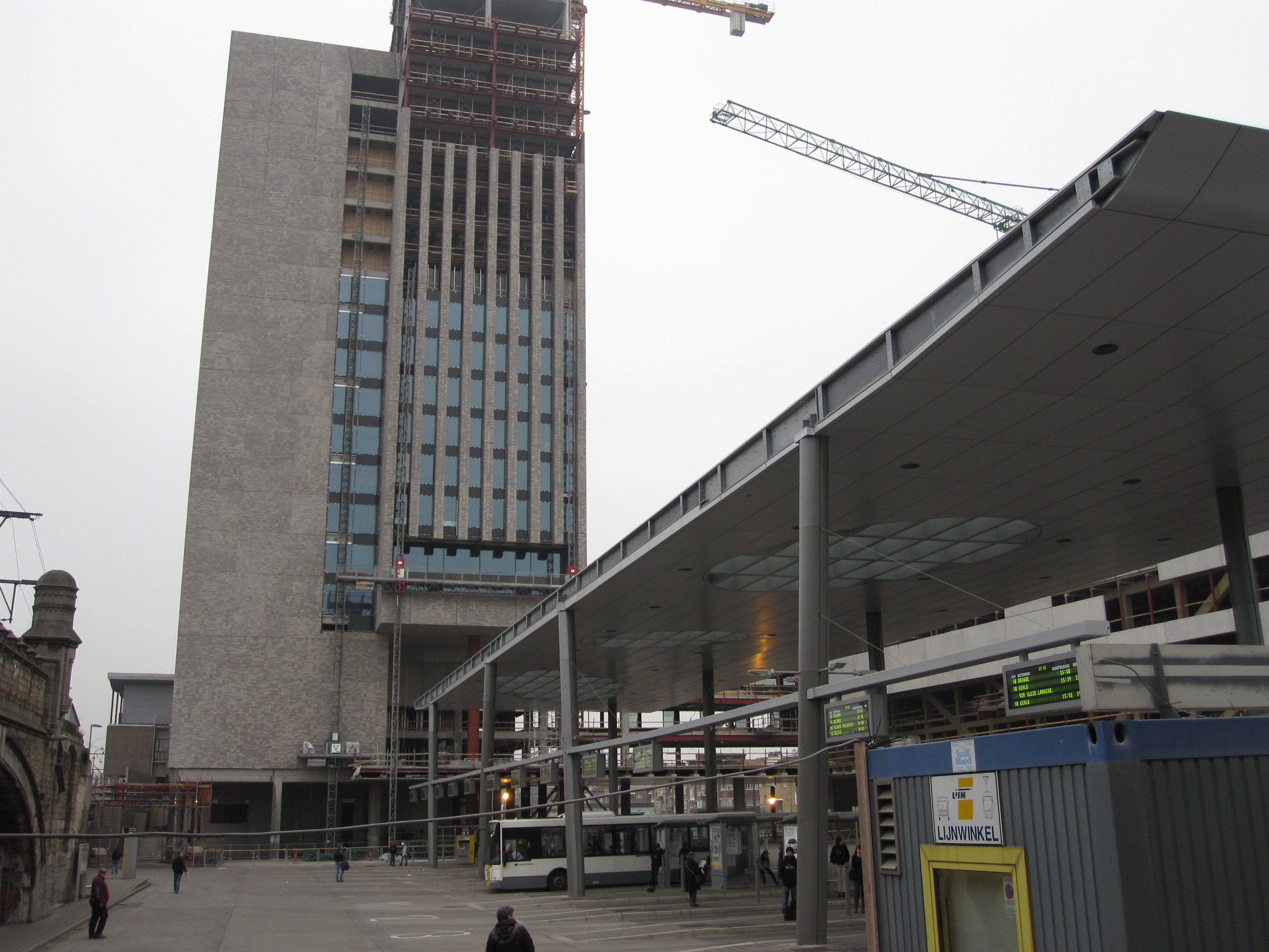 New bus station at the railway station 'Gent-Sint-Pieters'